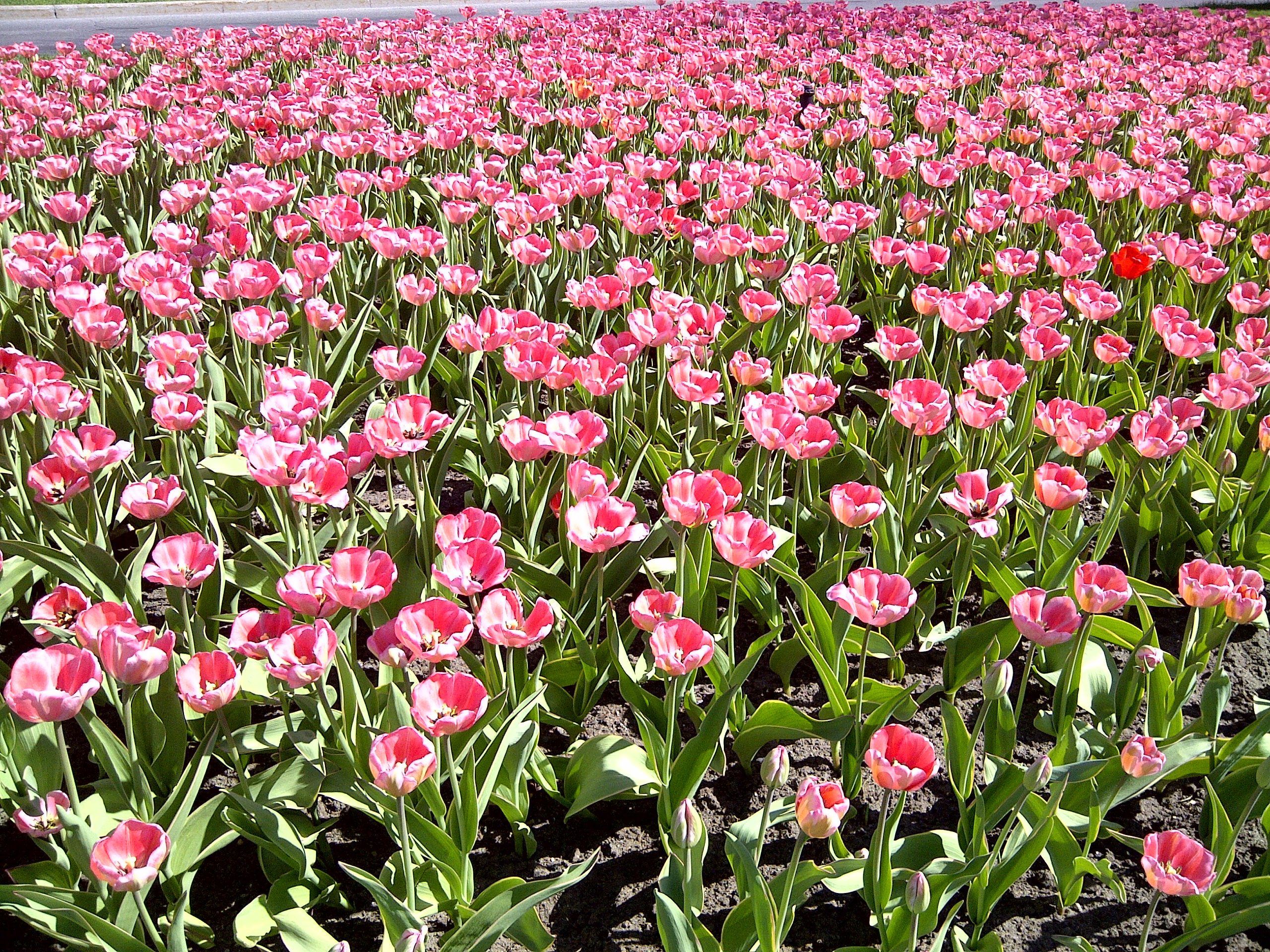 A bed of tulips along the Queen Elizabeth Driveway during the Canadian Tulip Festival. Ottawa, Ontario